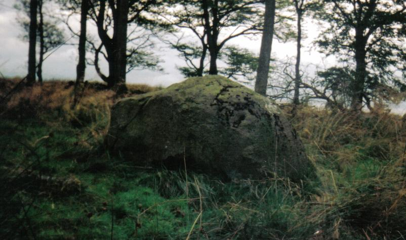 The Rocking or Logan Stone at Cuff Hill, Hessilhead, near Beith in North Ayrshire